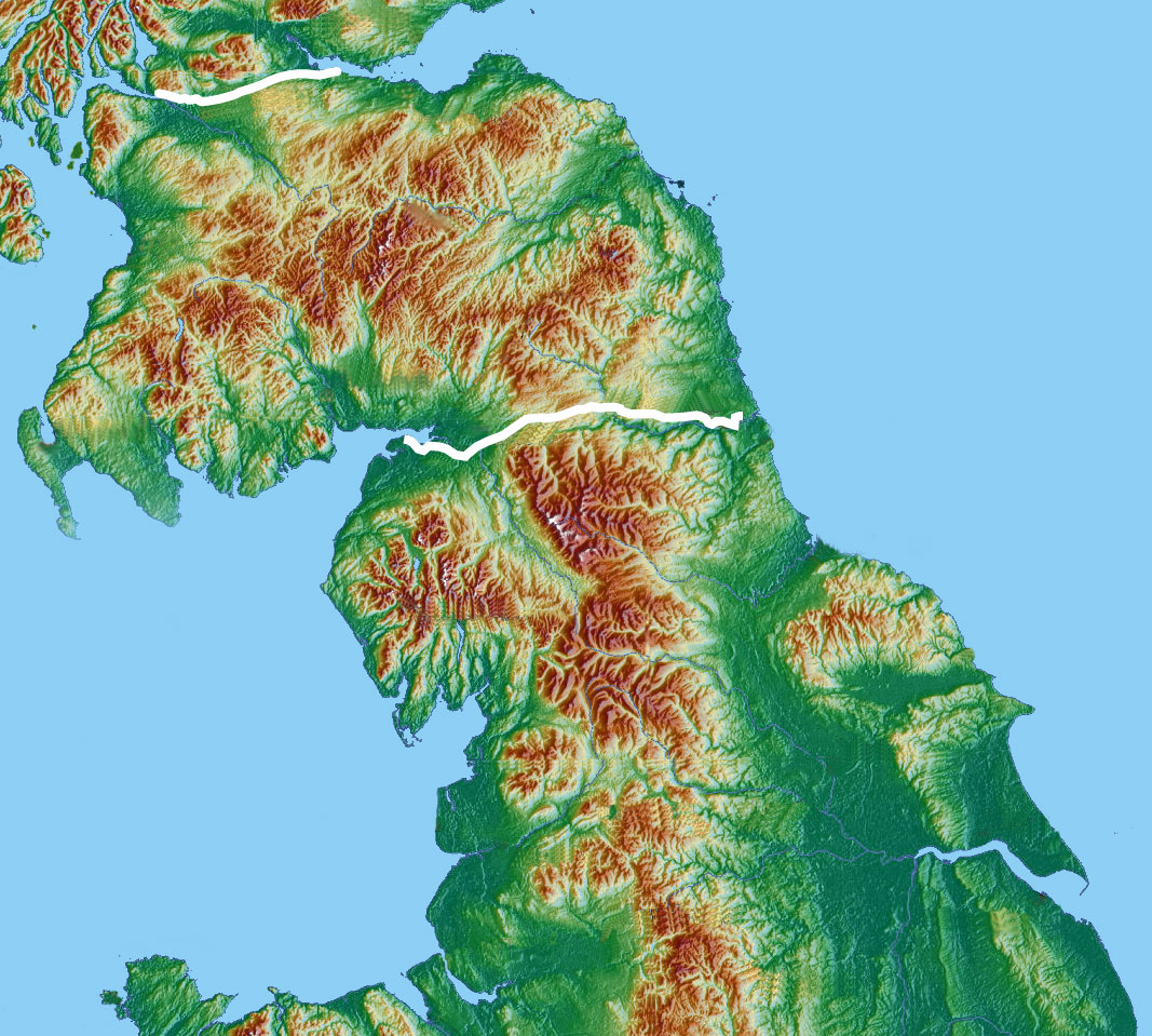 Northern Britain (topo), with walls (Hadrian's and Antonine)